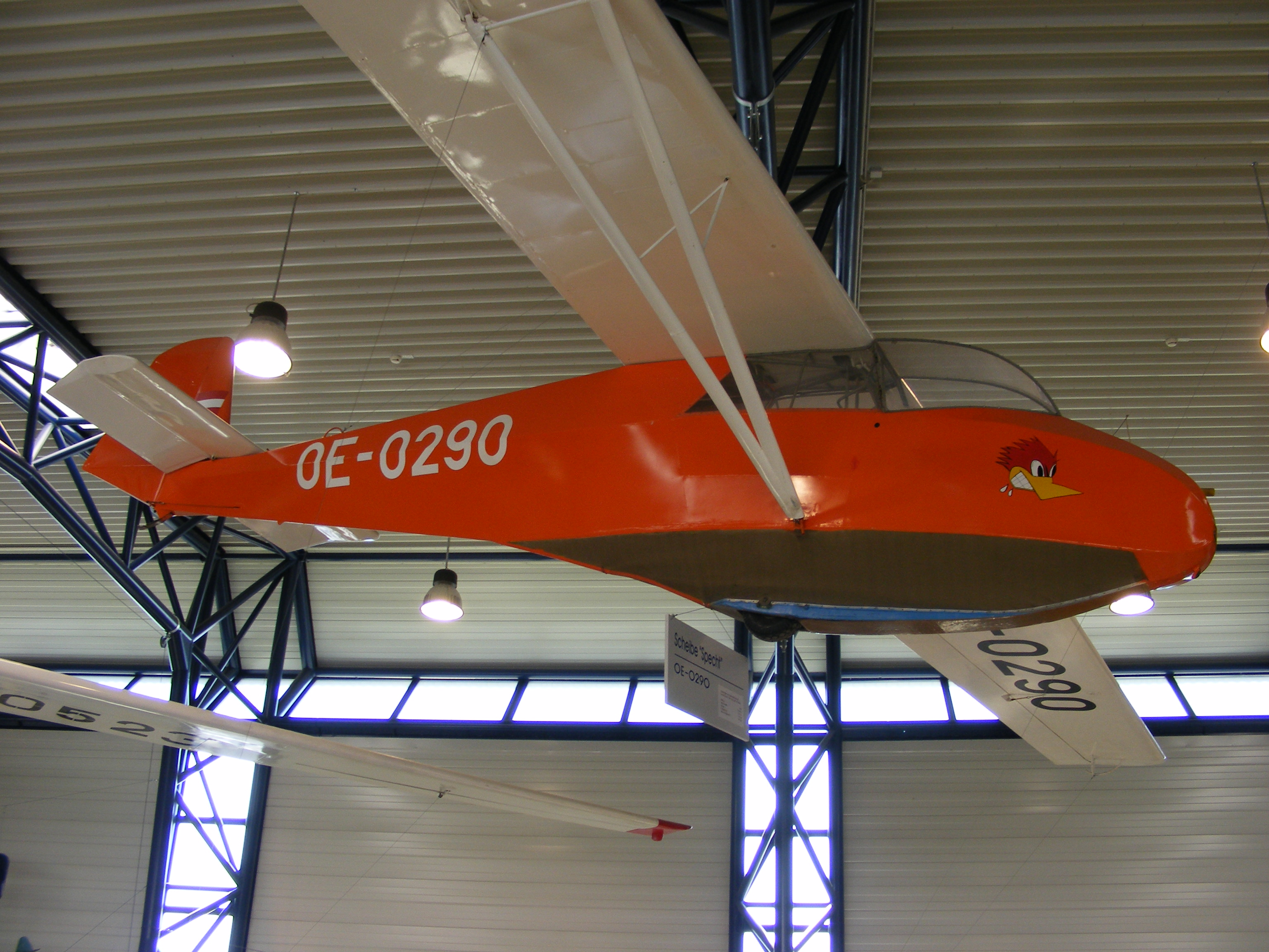 Scheibe Specht at aviaticum museum, Austria